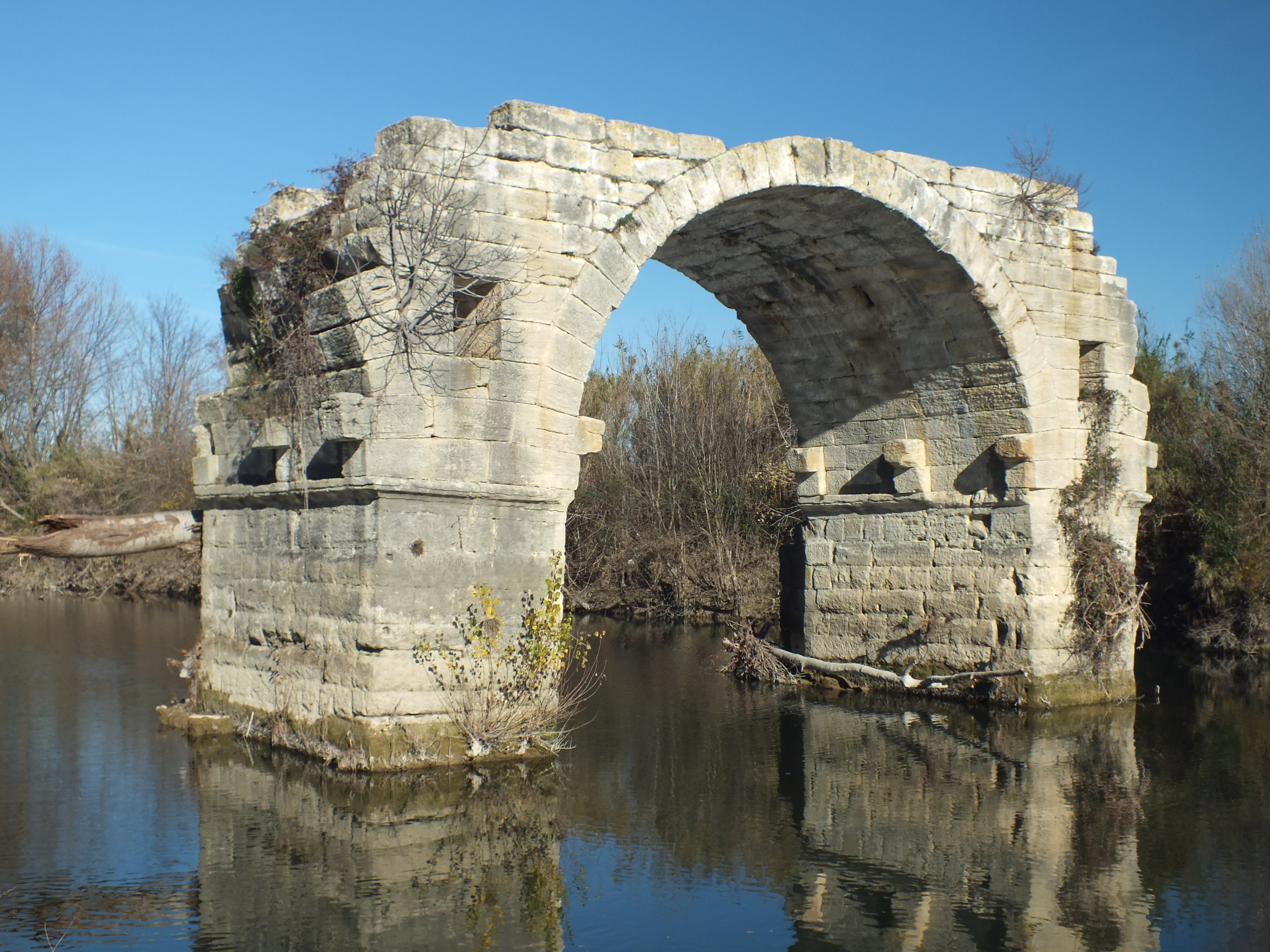 Ambrussum is a Roman archaeological site in Villetelle, near Lunel, Hérault, the Via Domitia which led over the Pont Ambroix, ran at the foot of the settlement. Leading from it is a paved road with visible traces of Roman cart tracks.